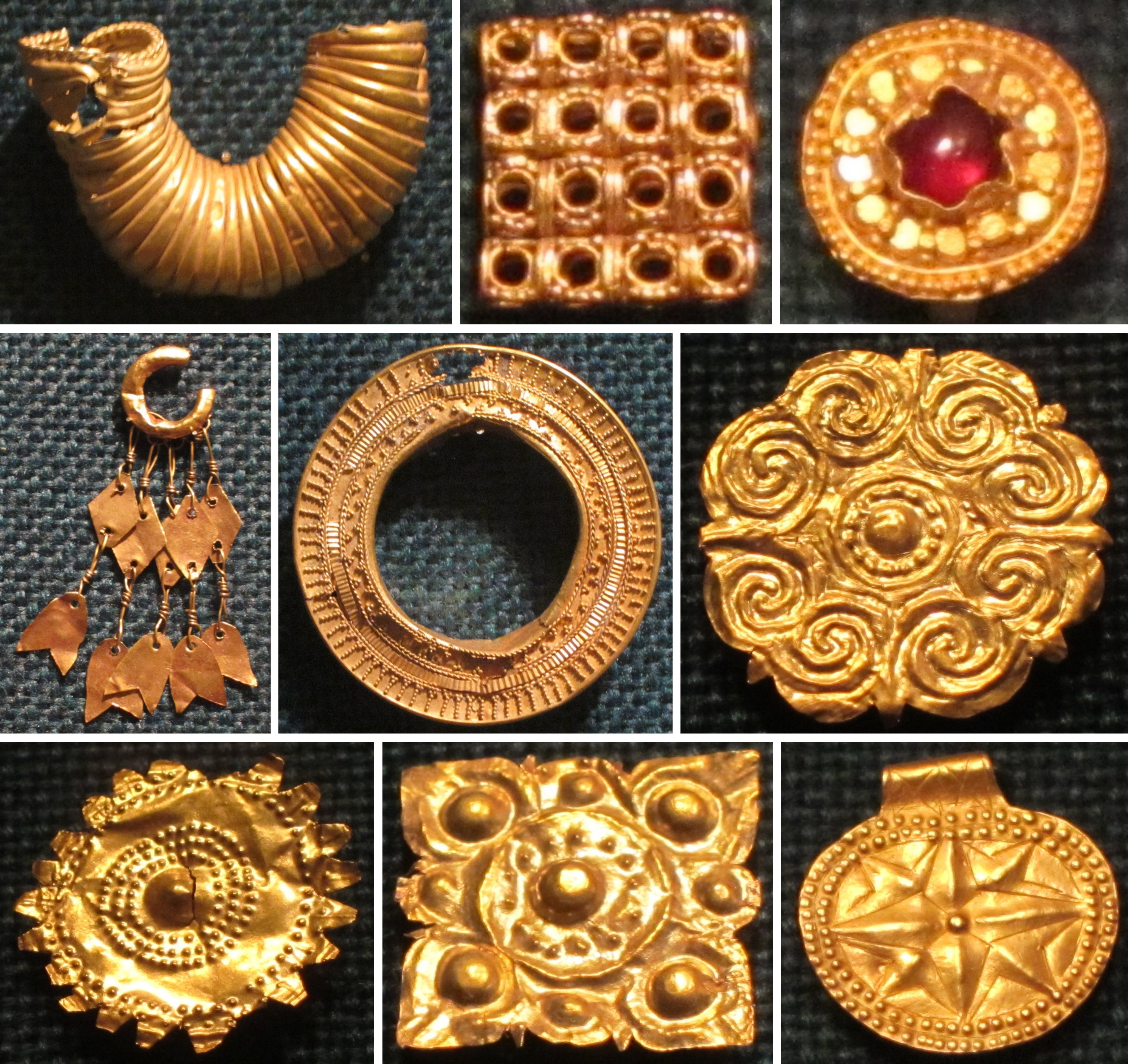 Jewelry and clothing ornaments Philippines, 12th-15th century Gold Honolulu Museum of Art Gift of Robert and Dee Levy with additional support from Sheldon Geringer, 2002 (12,411.1-12,447.1)